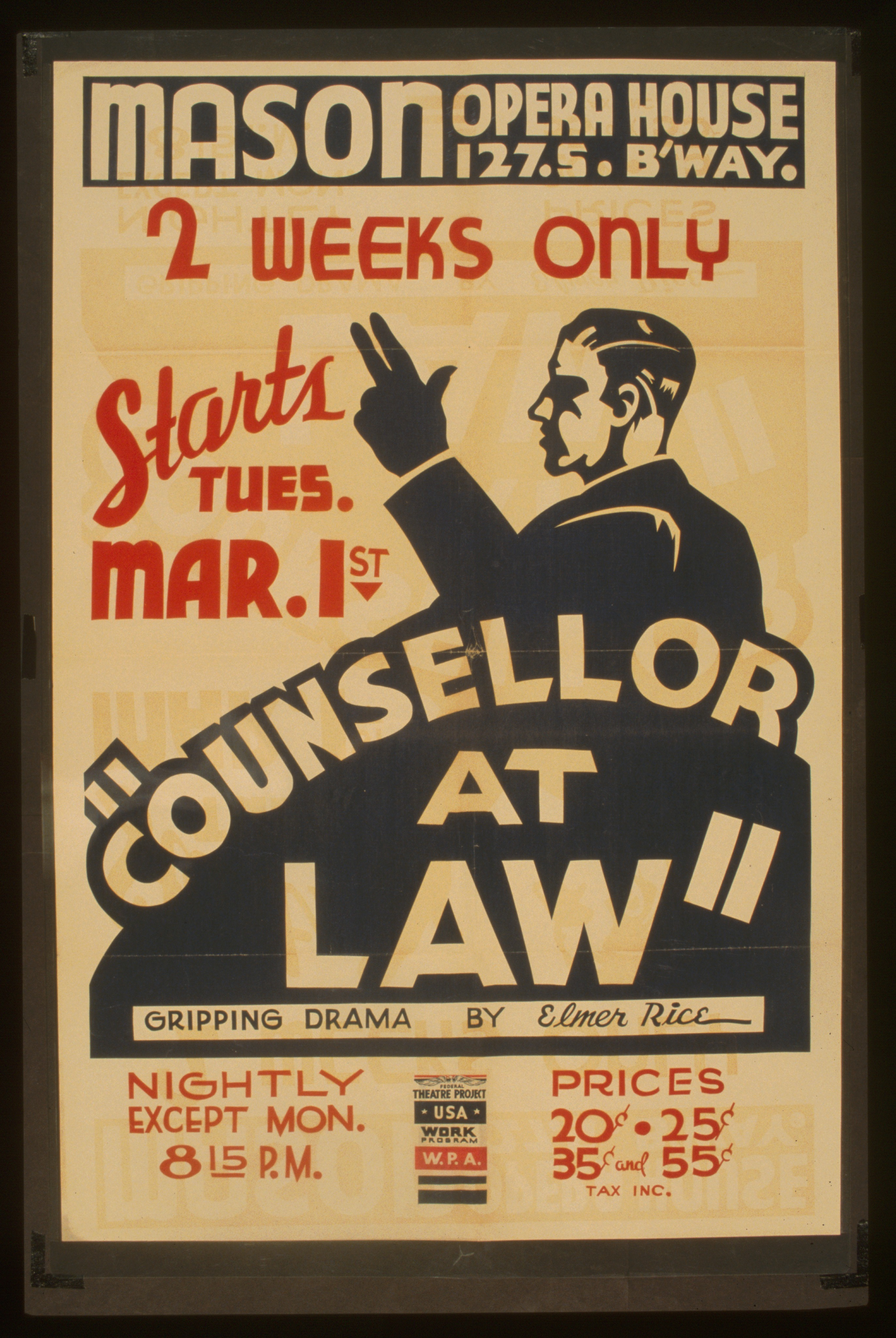 Title: "Counsellor at law" Abstract: Poster for Federal Theatre Project presentation of "Counsellor at Law" at the Mason Opera House, 127 S. Broadway. Physical description: 1 print (poster) : silkscreen, color. Notes: Work Projects Administration Poster Collection (Library of Congress).